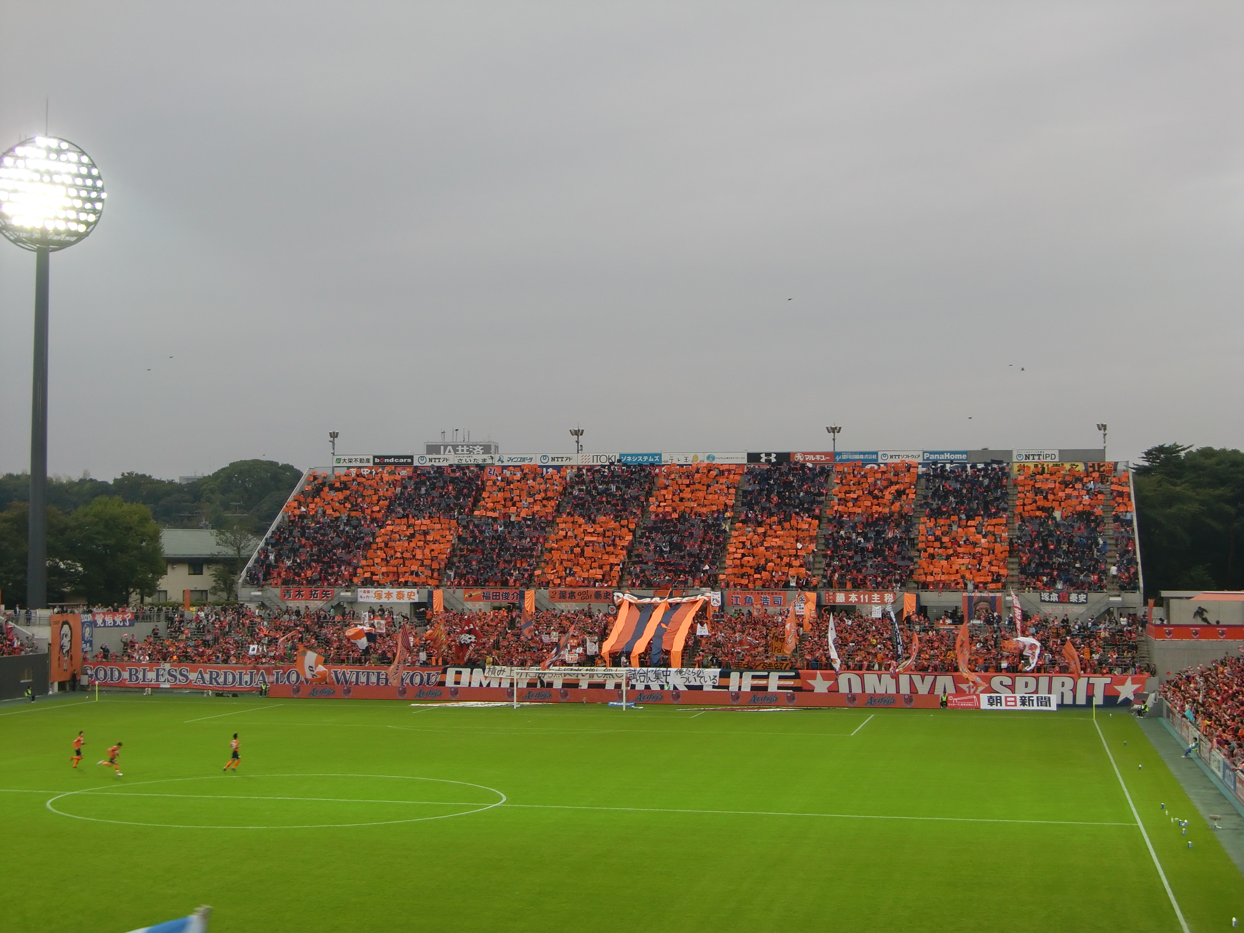 Omiya Ardija Supporter 2010.10.24